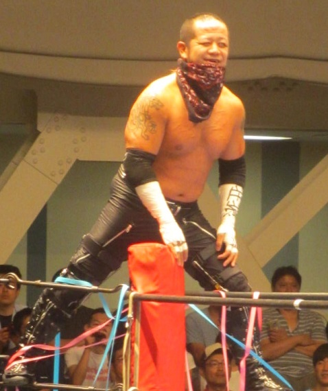 Japanese professional wrestler, Jun Kasai. July 3 2016, Ice Ribbon Korakuen Hall.